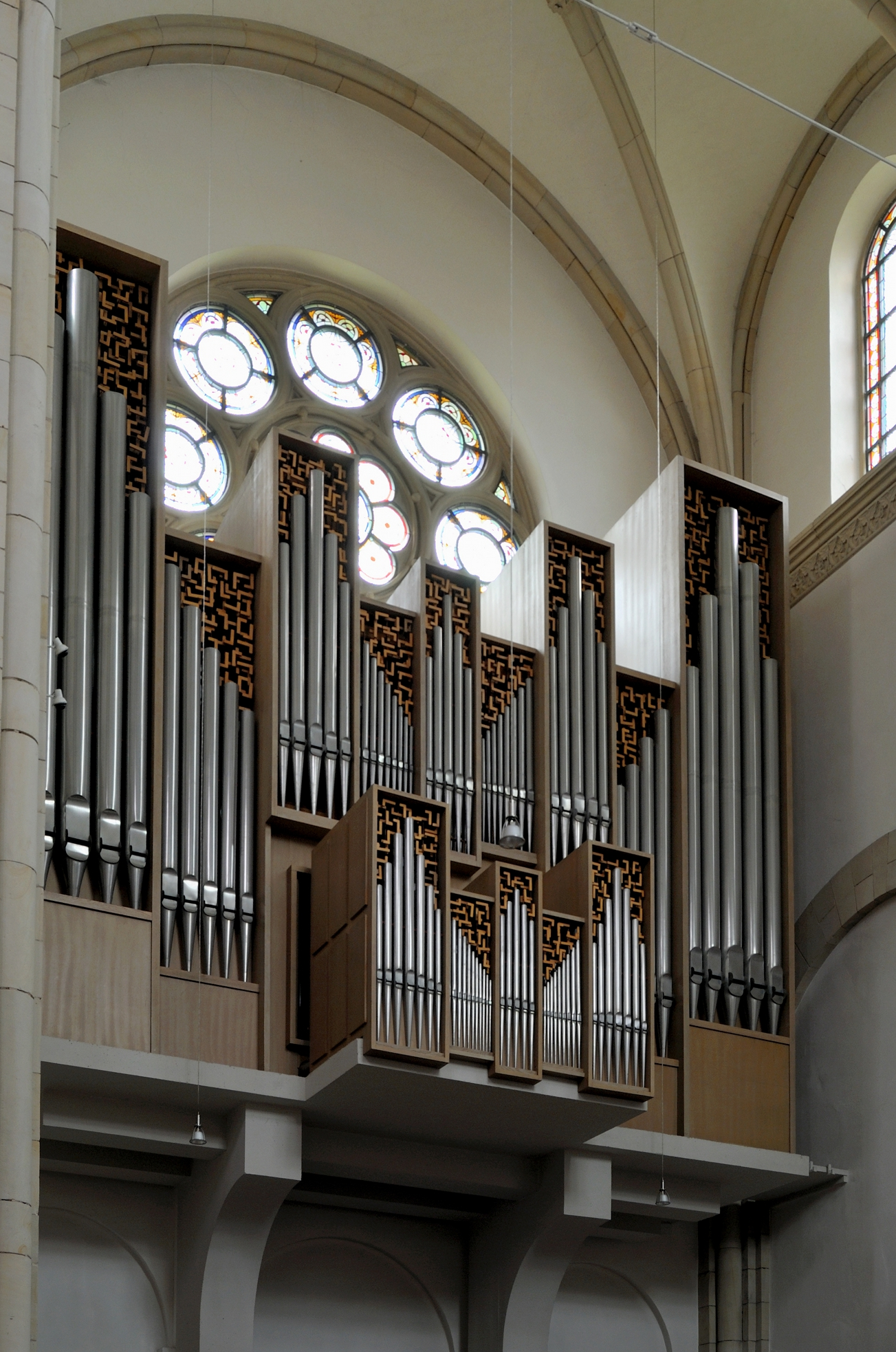 Gerleve Monastery near Billerbeck in North Rhine-Westphalia, Germany This photograph was taken with a Nikon D3000